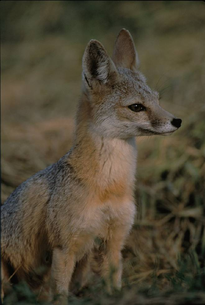 San Joaquin Kit Fox (Vulpes macrotis mutica)